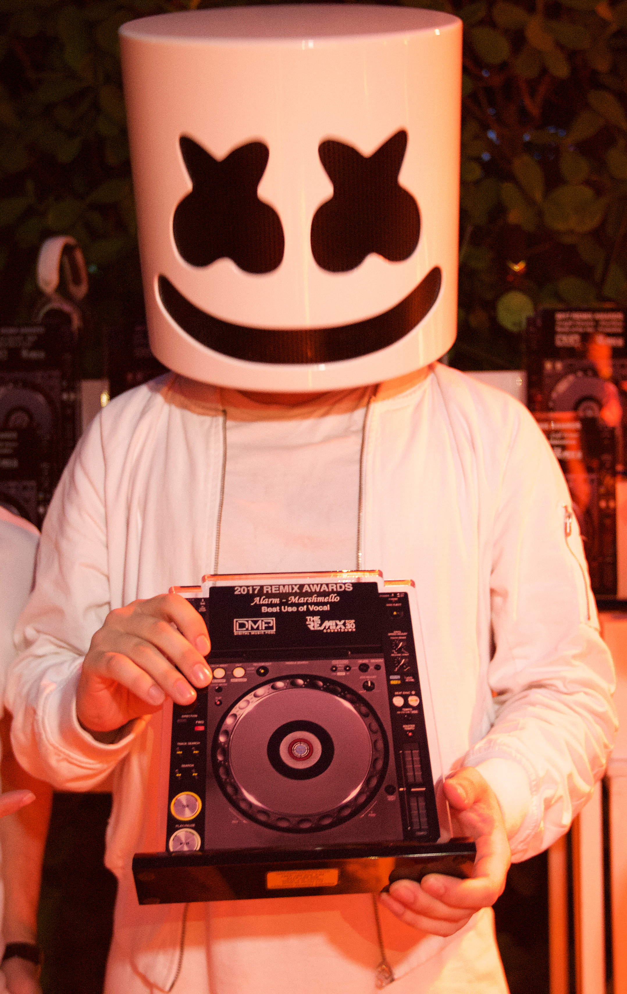 Cropped Version of Image: Marshmello2.jpg DJ Marshmello receives award from producers Sean Hamilton and Eric Hertzog.